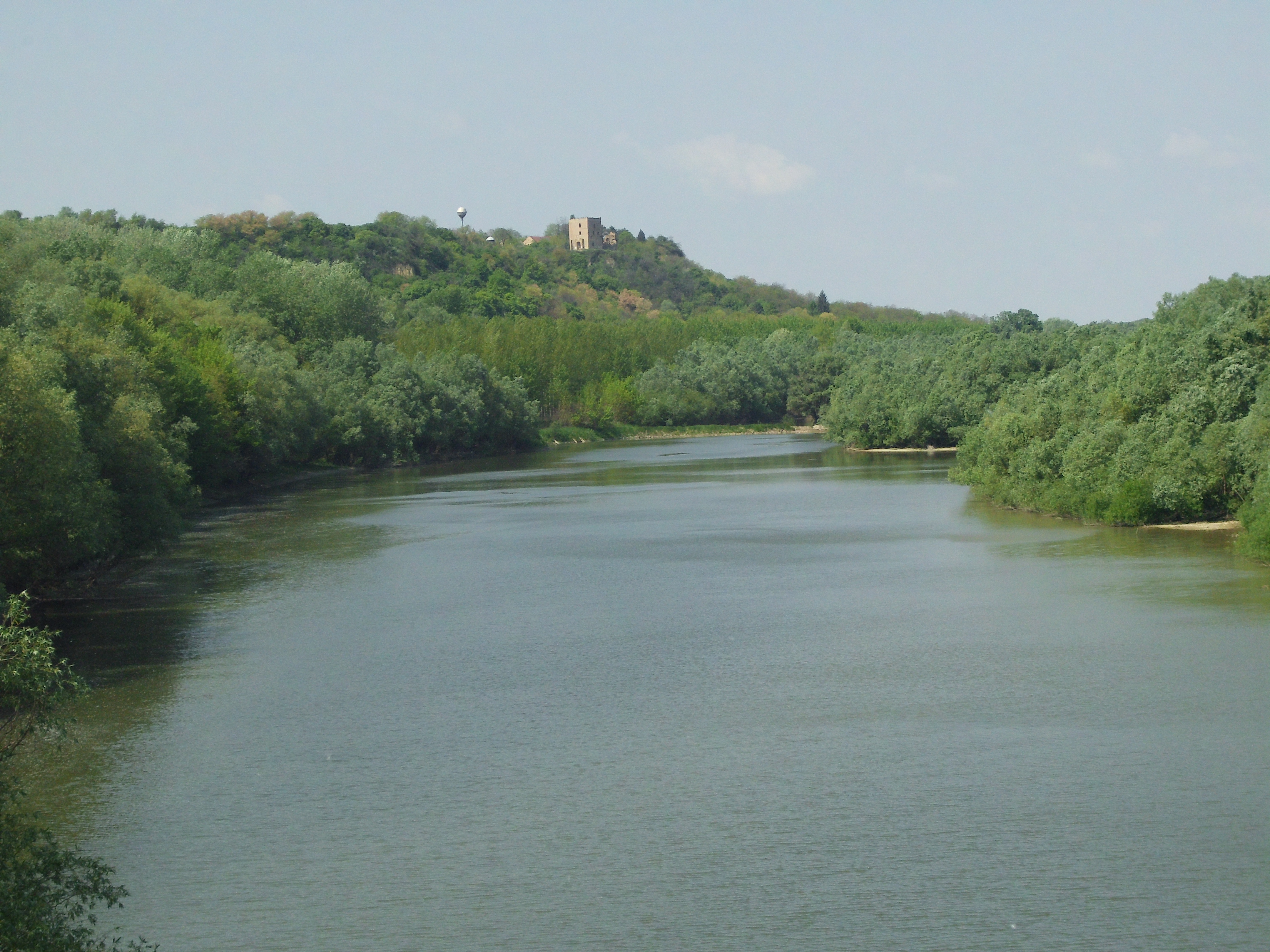 The Danube river, as seen from a border bridge between Croatia (left) and Serbia (right). The castle of Erdut can be seen at the left.